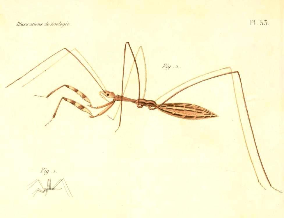 « Ploière vagabonde, Ploiaria vagabunda » = Empicoris vagabundus